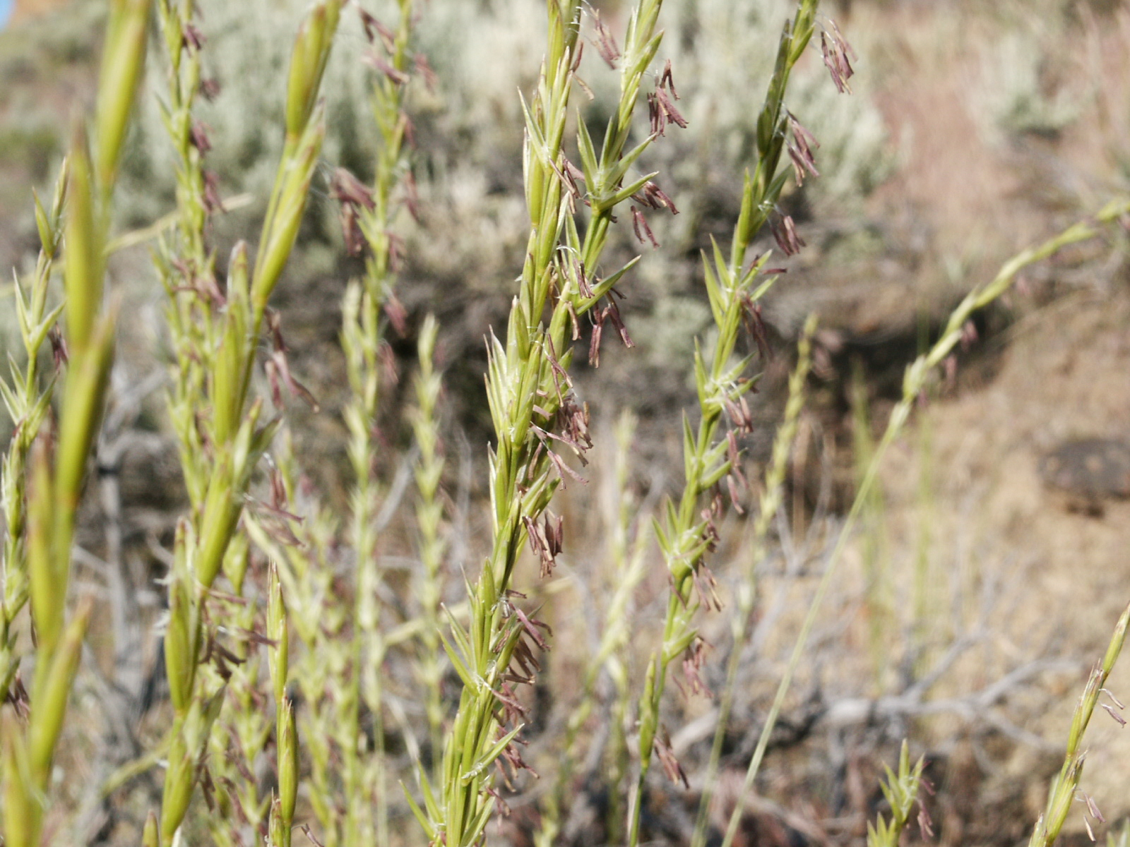 Picture of the inflorescences of Pseudoroegneria spicata during flowering, Malheur County, Oregon